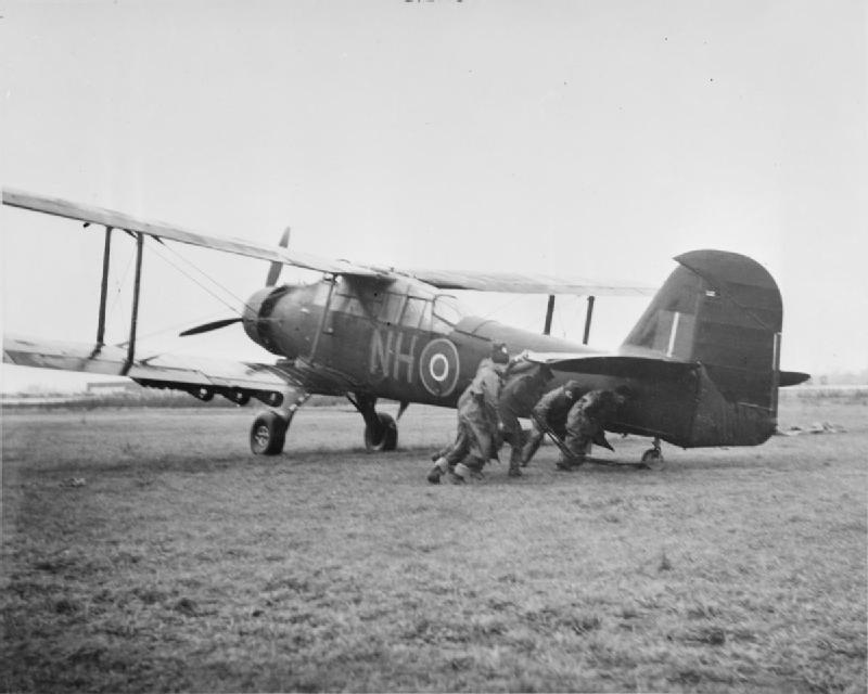 Royal Air Force Coastal Command, 1939-1945. Ground crew manoeuvre a Fairey Albacore Mark I of No. 119 Squadron RAF Detachment into wind at B65/ Maldeghem, Belgium. The aircraft has been loaded with 250-lb GP bombs for a night anti-shipping patrol off the Dutch coast.